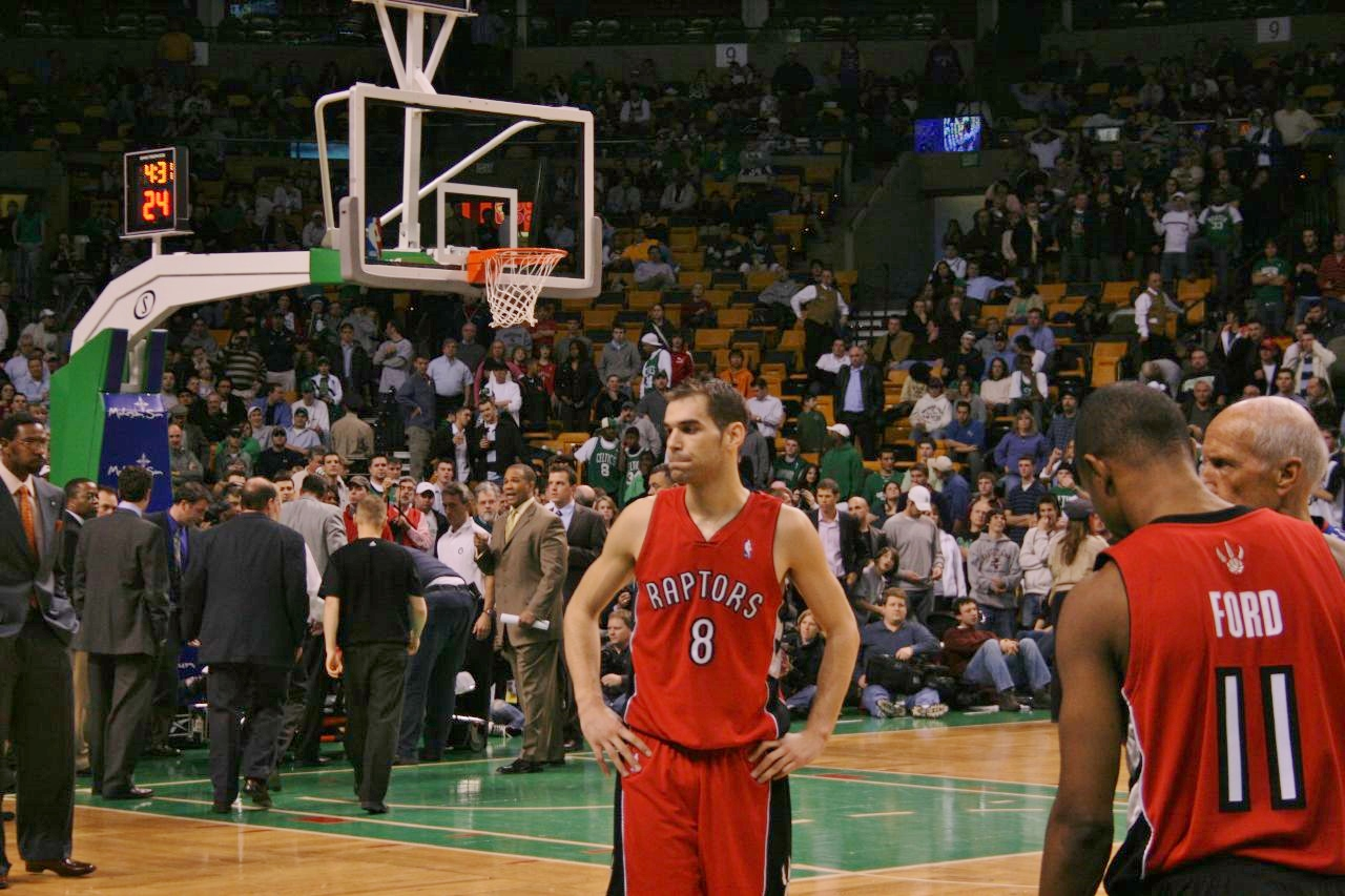 Toronto Raptors basketball player Jose Calderon and coaches at the Boston Garden in 2007 before a game vs the Boston Celtics